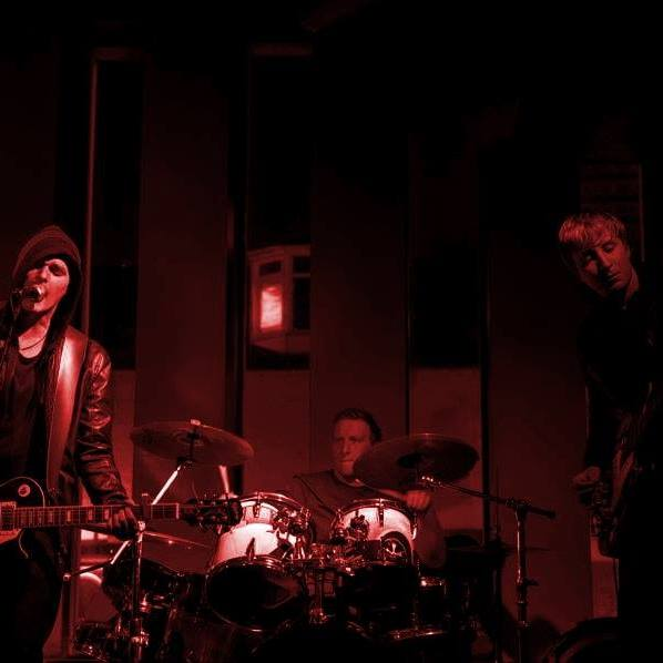 The J.T.A. live in Sunderland